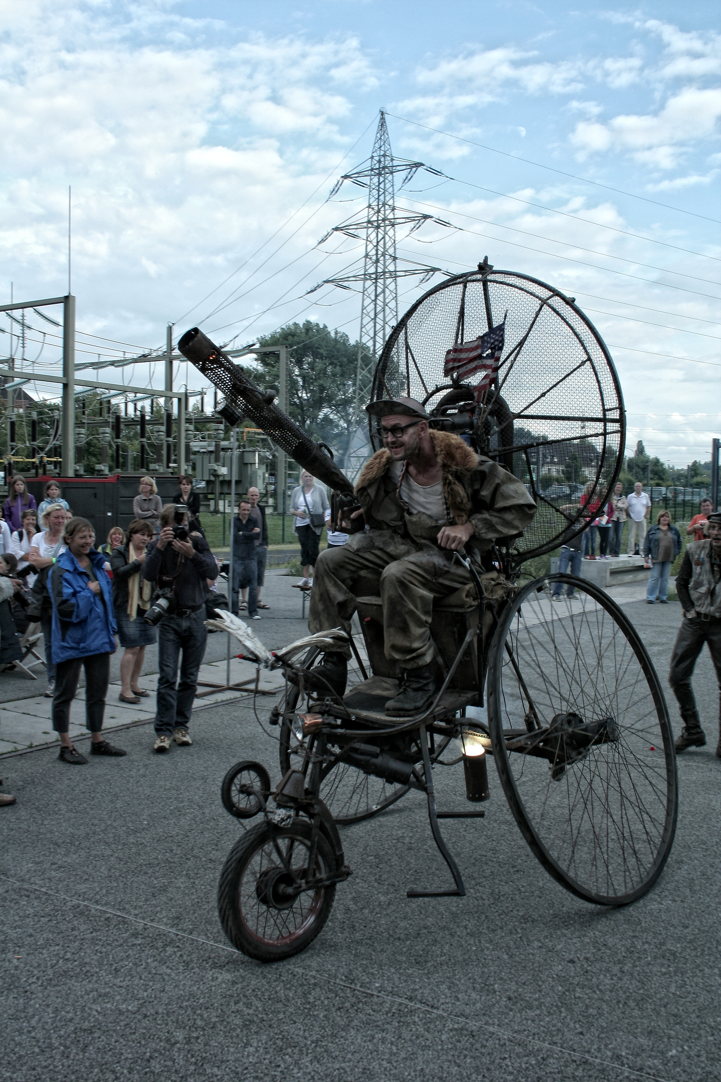 Firebird of the "Theater Titanick" photo taken at "Zeche Zollverein" during "Extraschicht"